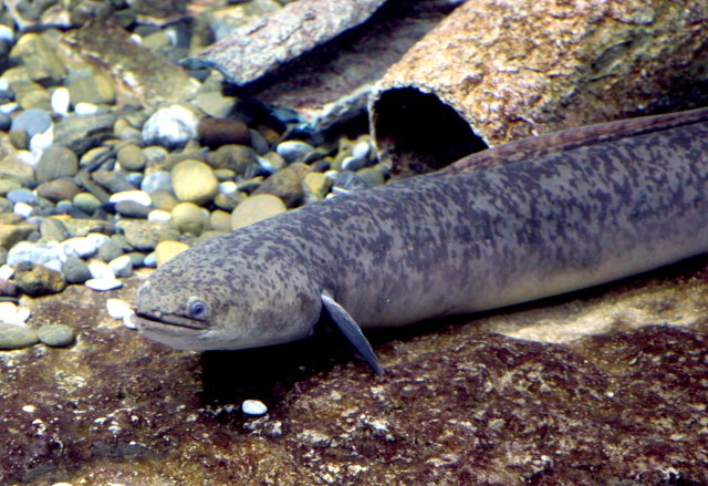 Anguilla marmorata